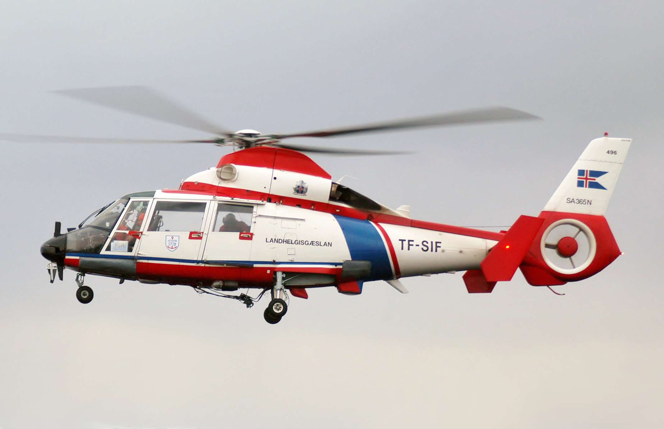 An Iceland Coast Guard (Islenska Landhelgisgaeslan) Eurocopter / Aerospatiale AS-365N Dauphin 2 (TF-SIF) Search and Rescue (SAR) Helicopter hovers over the beach as it prepares to deliver equipment to the Icelandic fishing trawler, the BALDVIN THORSTEINSSON, that ran aground on a sandbar off Iceland’s southern coast while transporting a very valuable catch of 1,500-tons of Capelin fish.